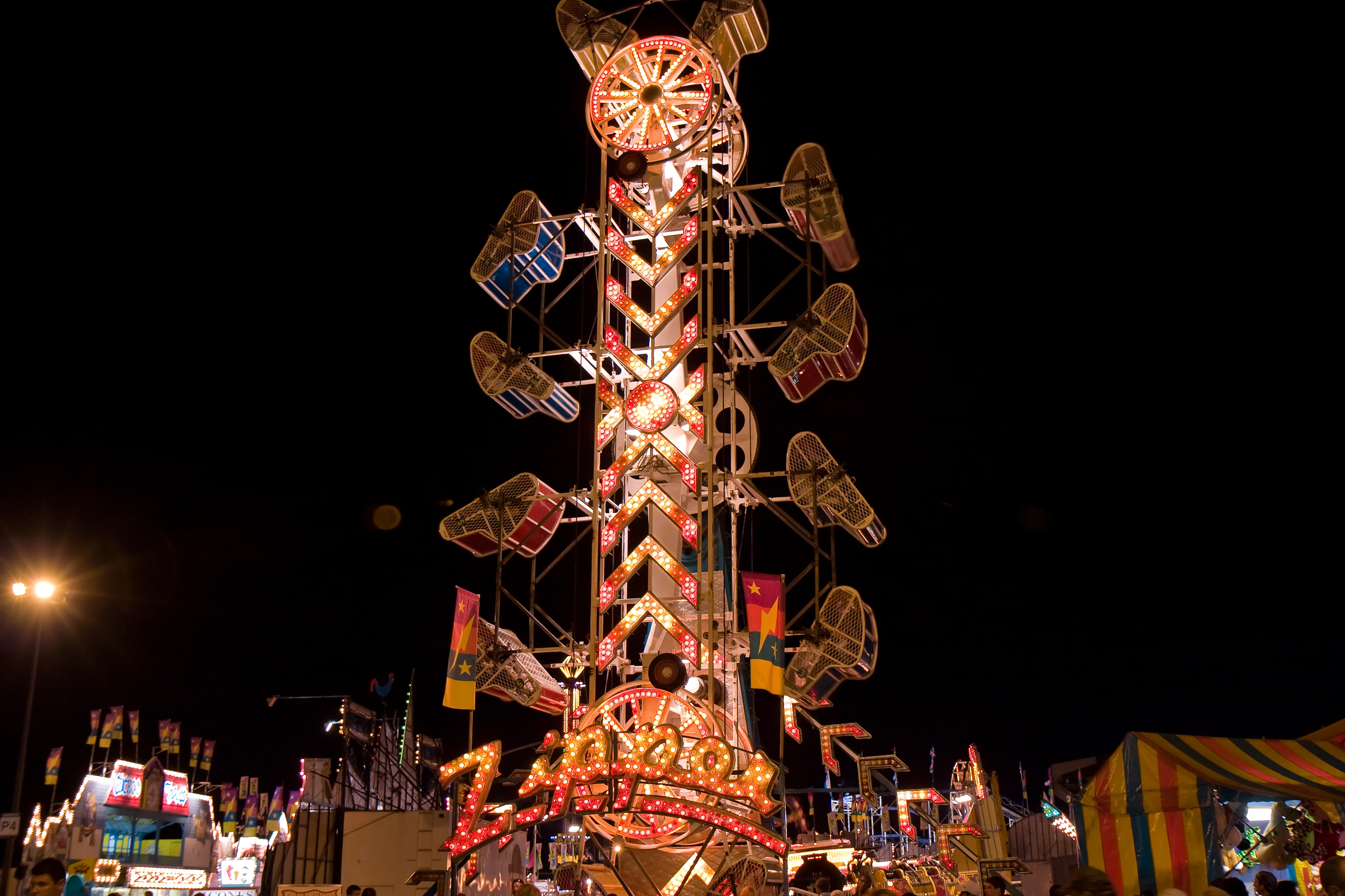 IMG_0279-Edit